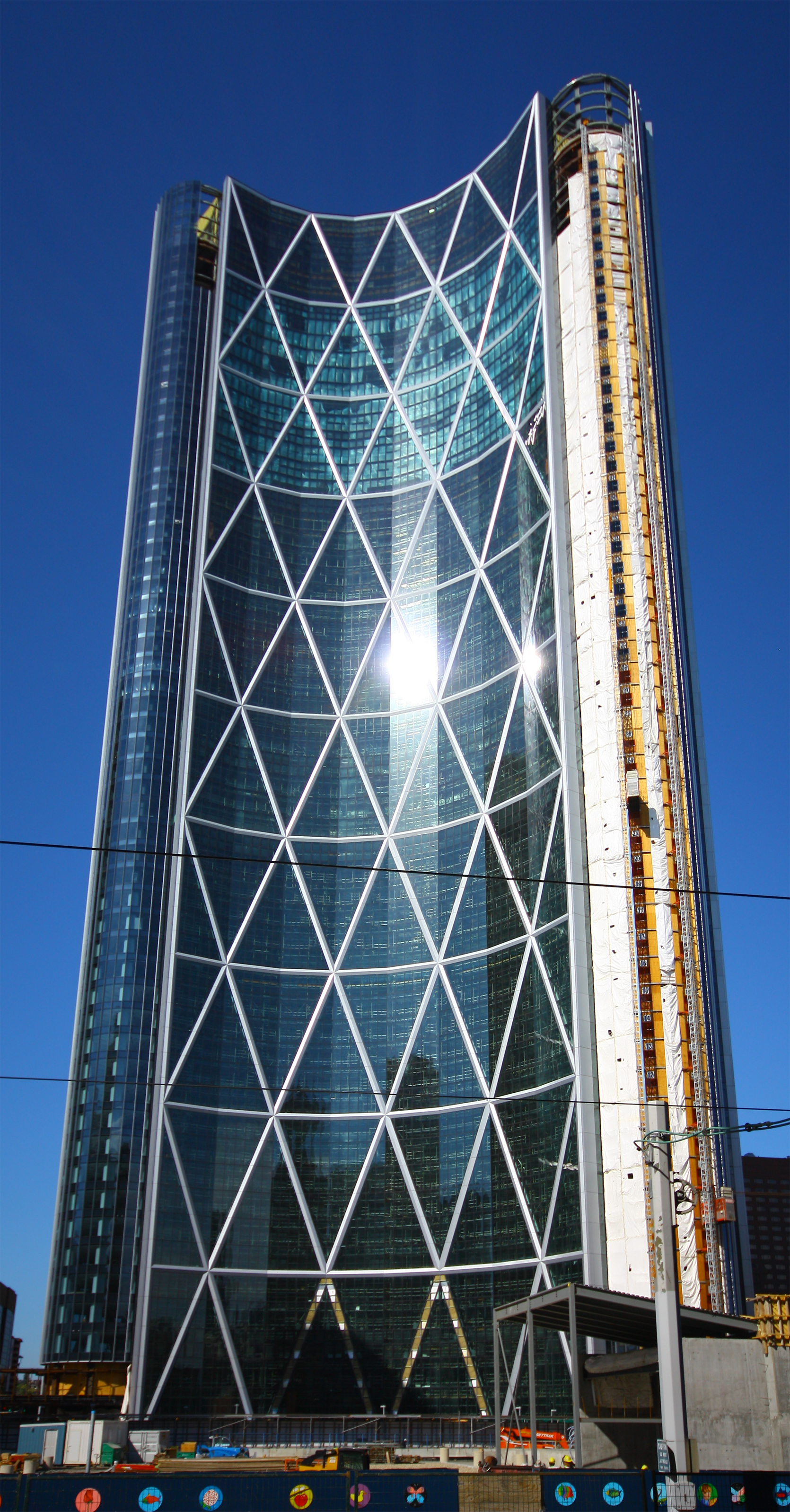 View of the Bow tower from 7th Avenue S, August 25, 2011.